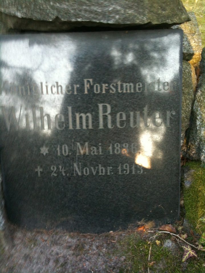 Royal Forester (Königlicher Forstmeister) grave at Försterfriedhof, Siehdichum, Deutschland.